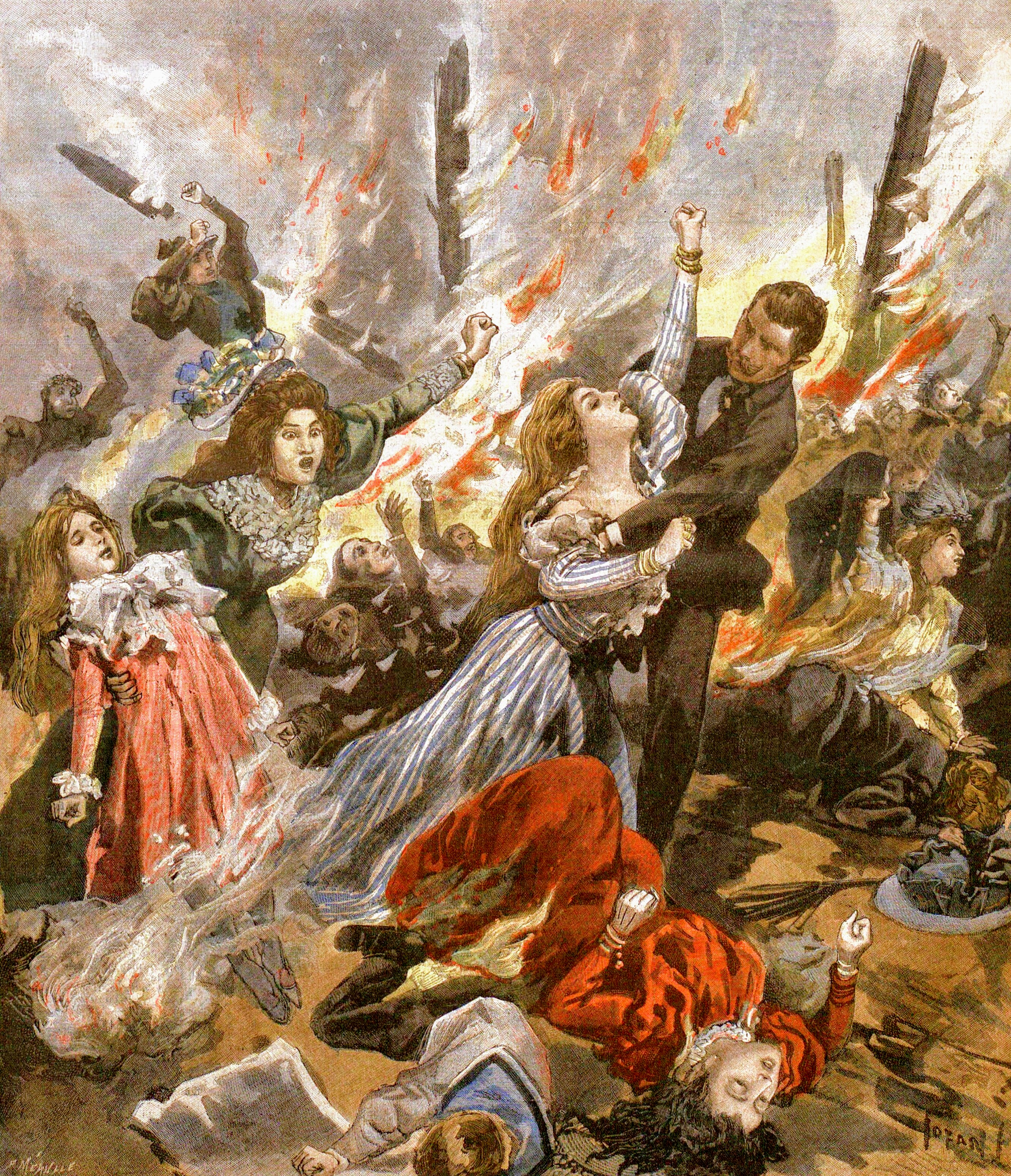 Fire at the Bazar de la Charité (Le Petit Journal).